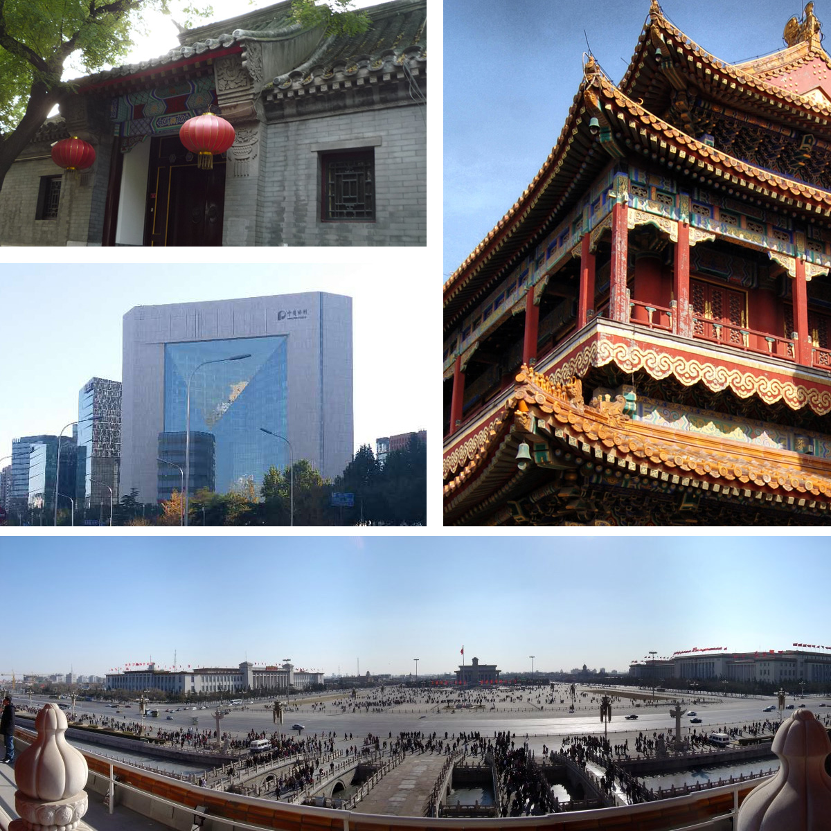 Collage of Dongcheng District in Beijing From the top left clockwise: 1. Hutong, 2. Lama temple, 3. Tiananmen Square, 4. New Beijing Poly Plaza, My own work